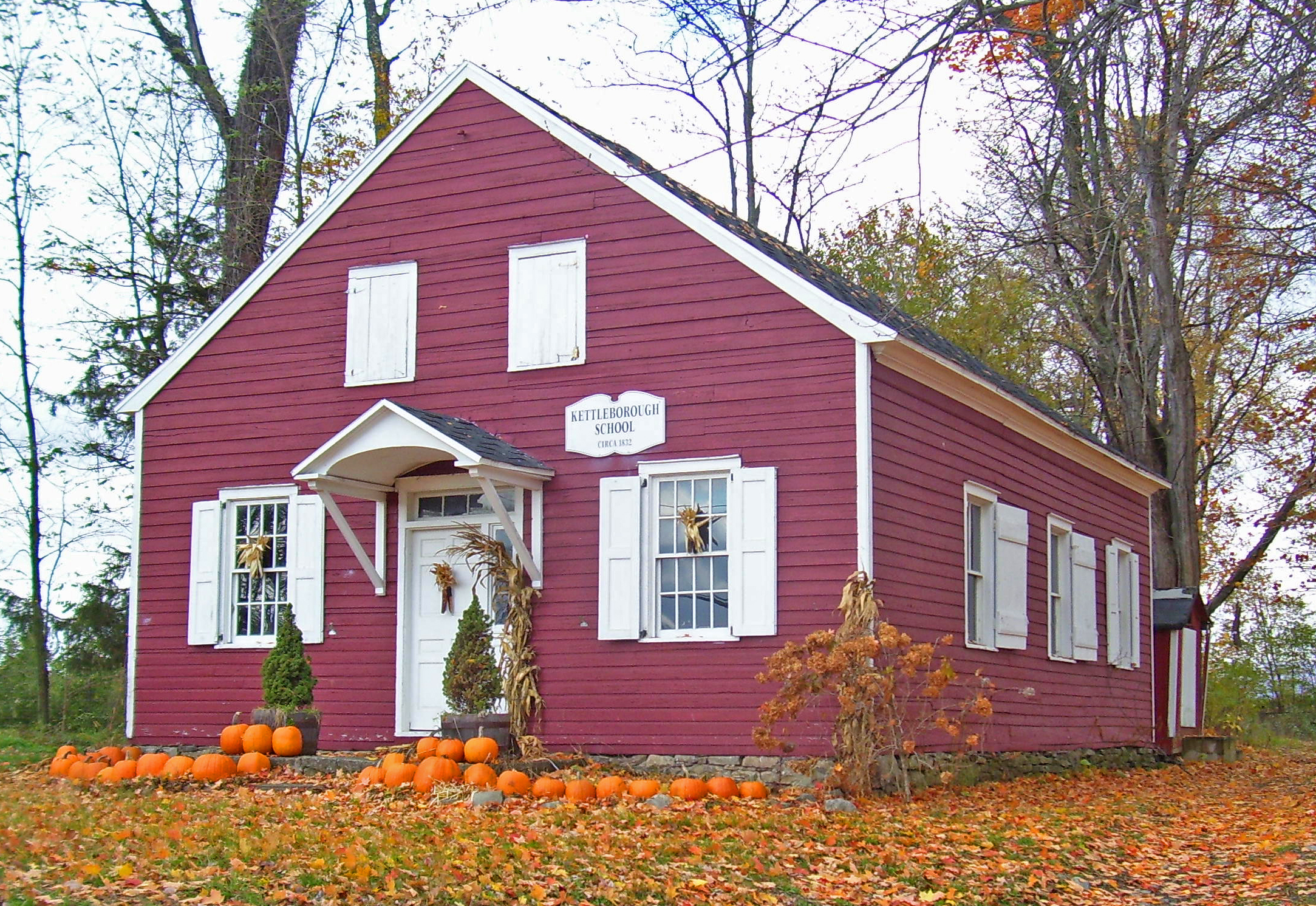 Kettleborough School, one of two buildings part of the John LeFebvre House and School in Gardiner, NY, USA